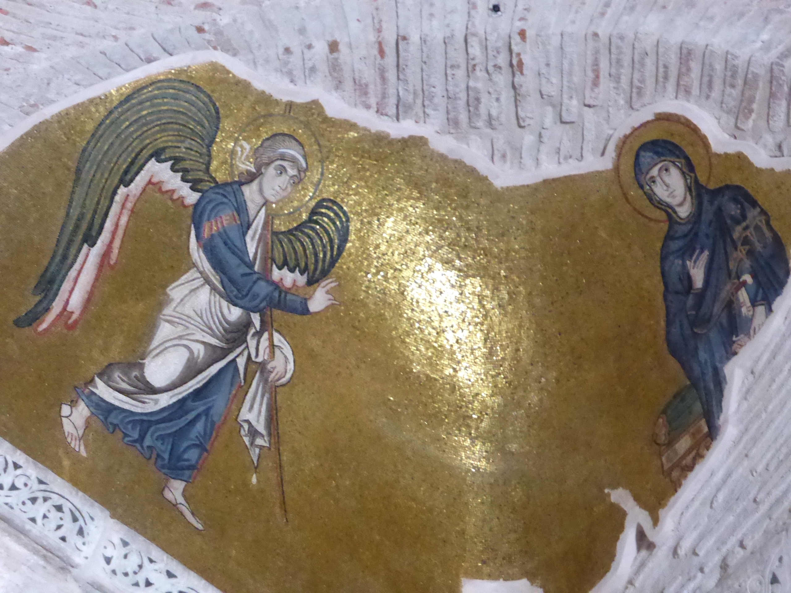 Daphni Monastery mosaic, Annunciation